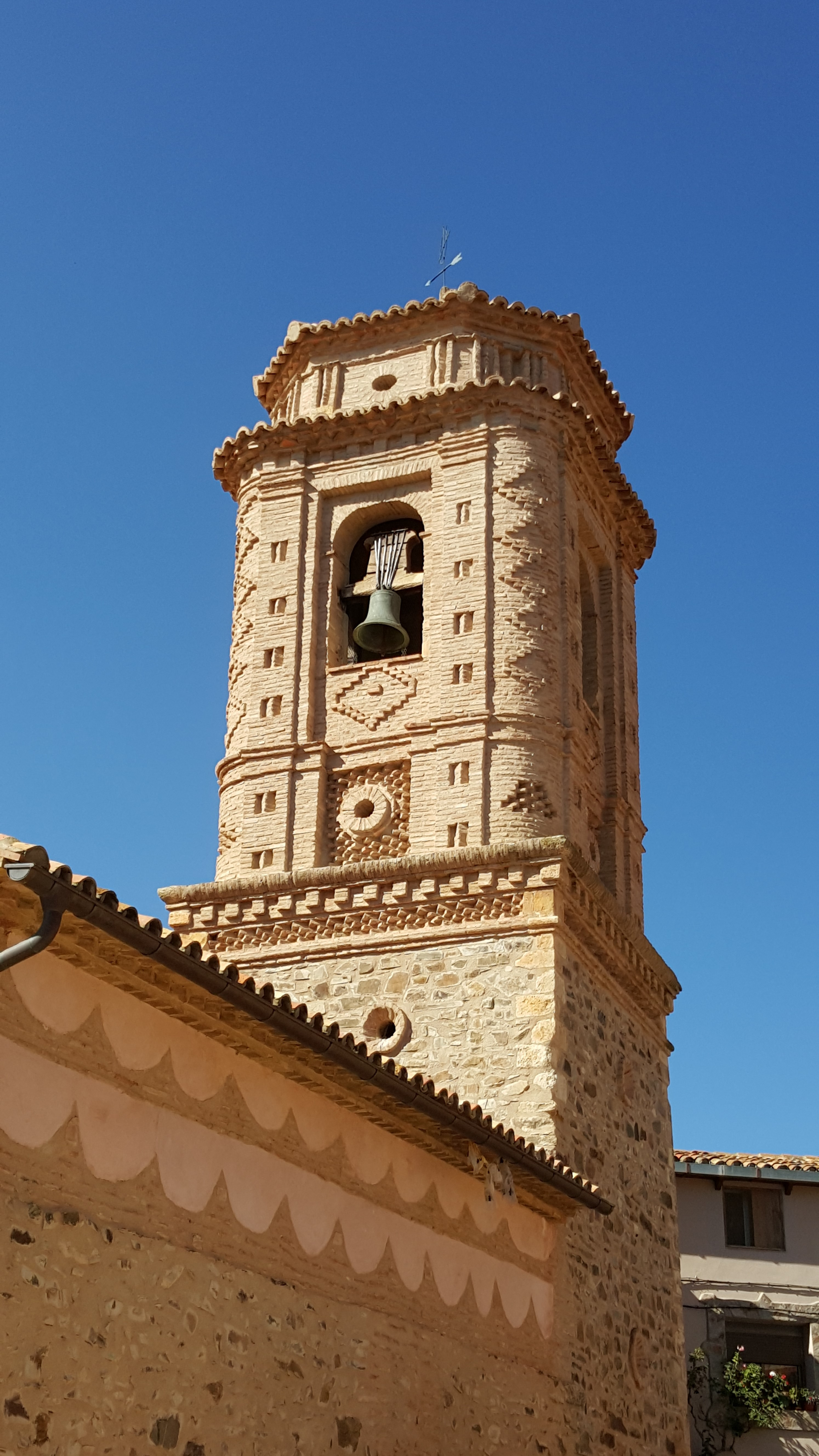 Church of St María la Mayor, Val de San Martín, Zaragoza, Spain